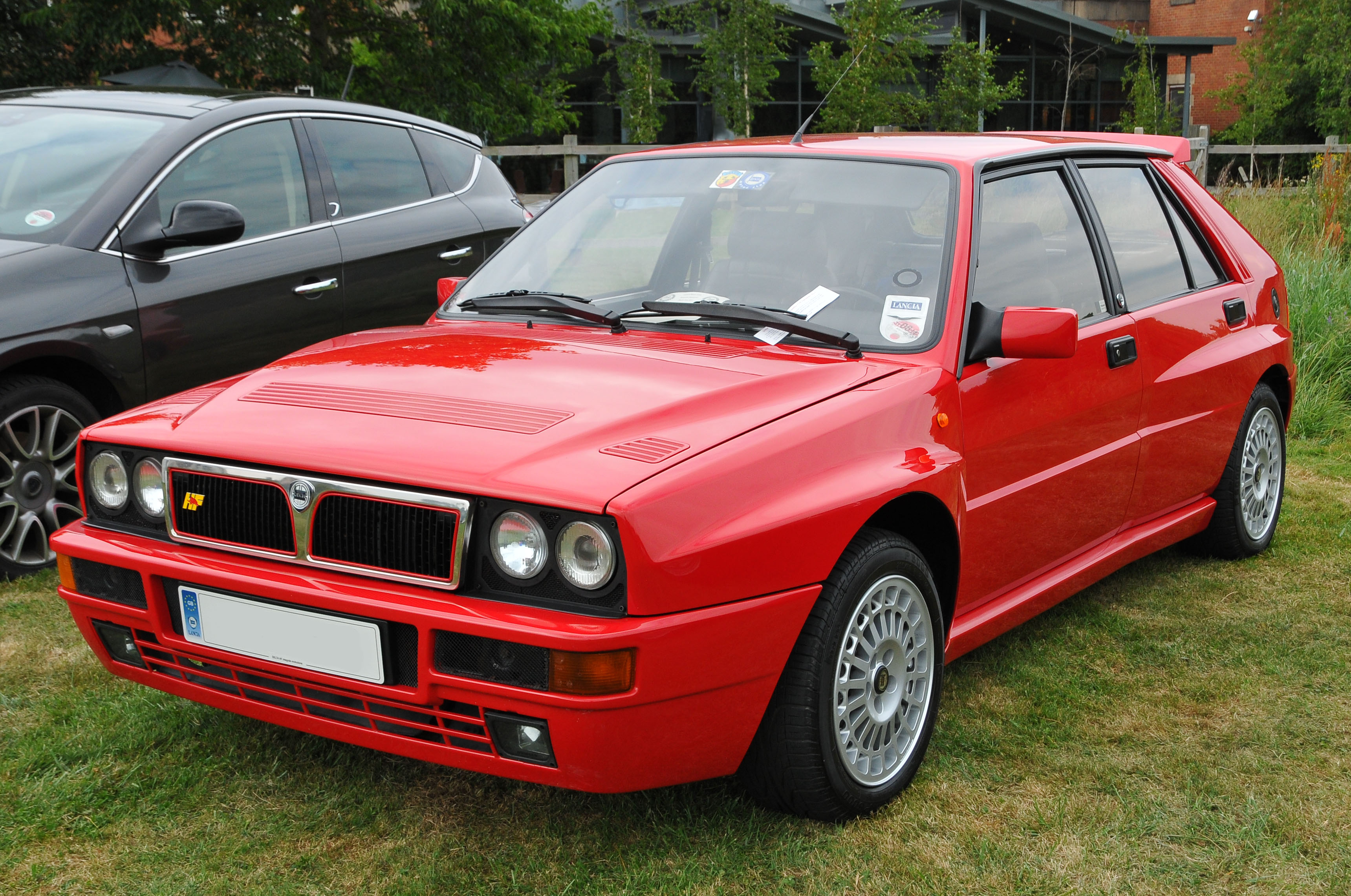 Lancia Motor Club AGM July 2011